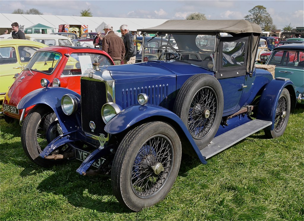 YF 1534Vauxhall 14-40 open 2-seater2,297 c.c. first registered 24 March 1927Panasonic G1 14-45 Lens